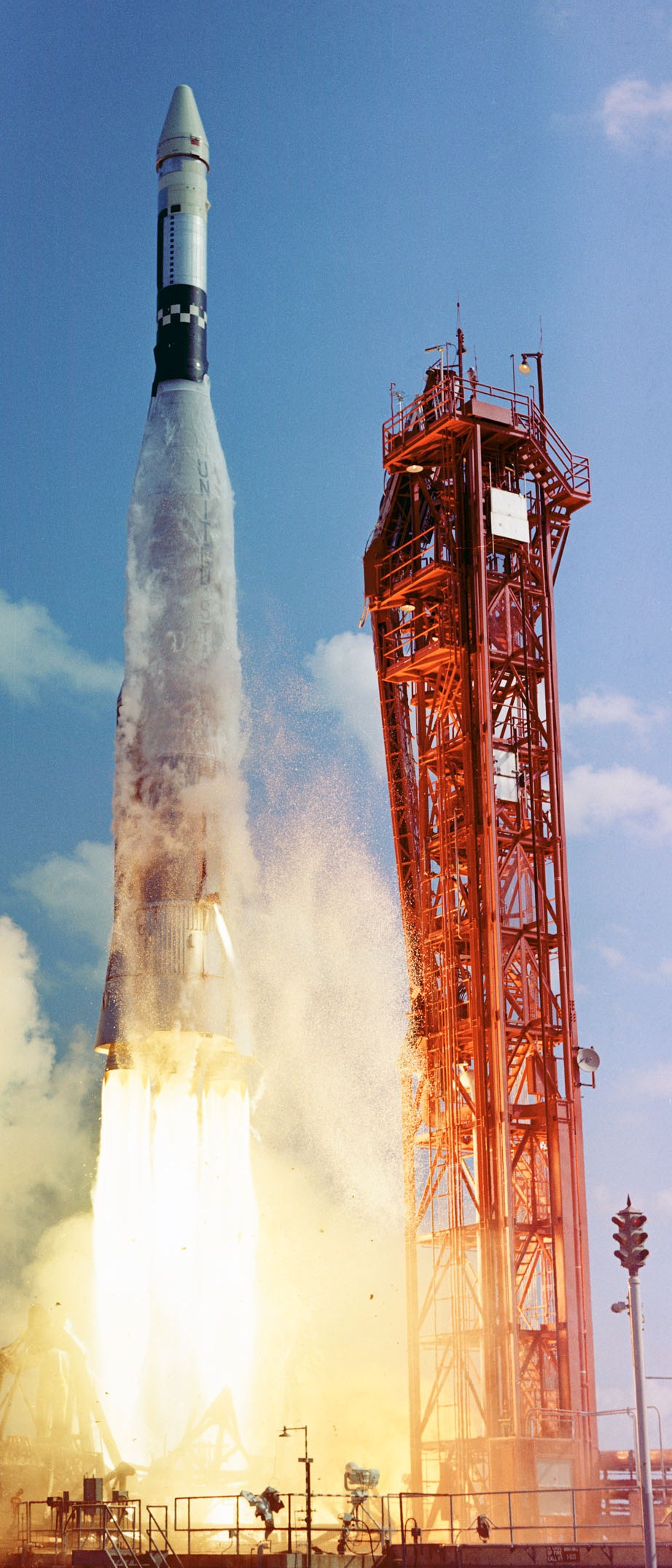 The Atlas-Agena launches with the Agena Target Vehicle intended for the original Gemini 6 rendezvous mission, the flight ended in failure.